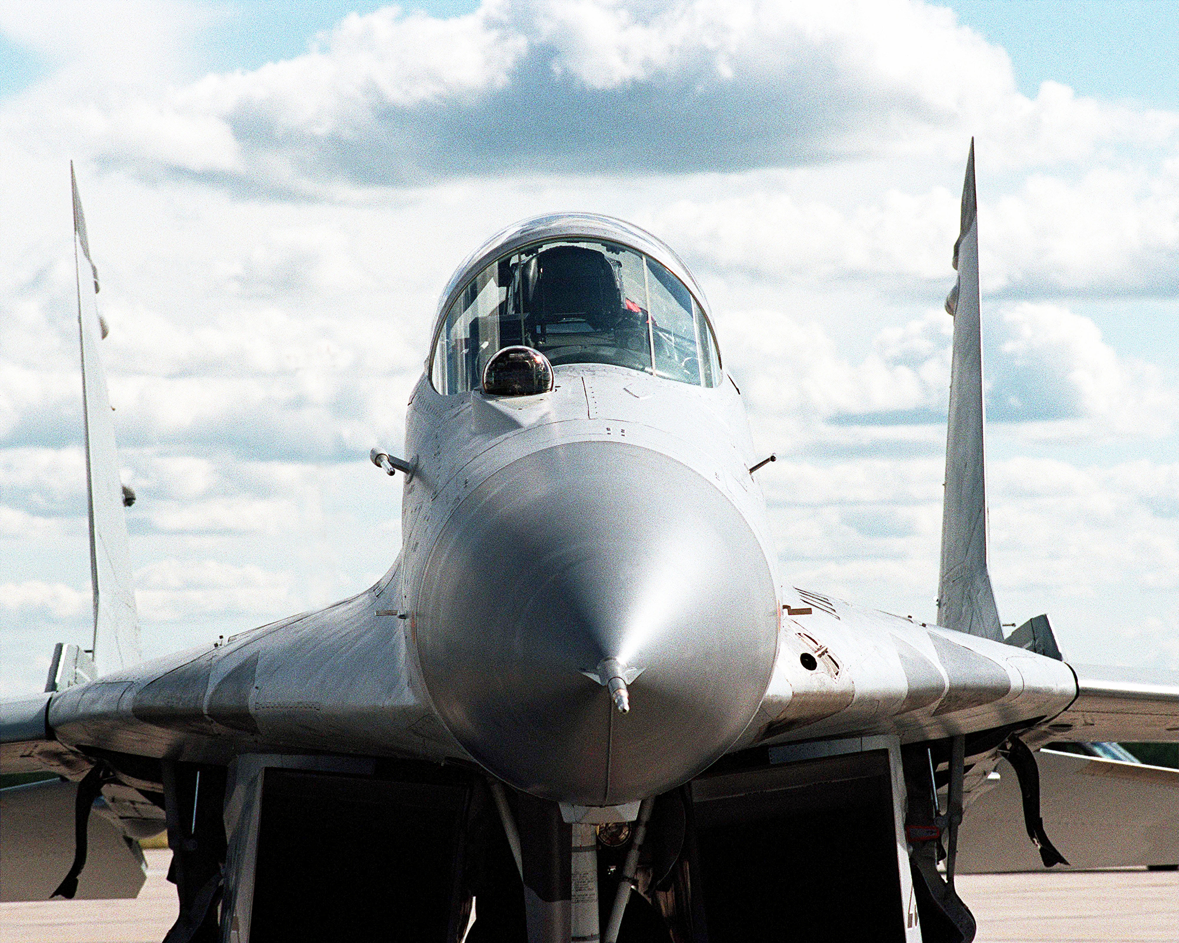 During Operation MAPLE FLAG, held in Cold Lake Canada, a German MIG-29 stands on the flight line. The German Air Force took part in the NATO joint opertion with an Electronic Warfare Squadron Marine Attack Squadron 4 (VMA-Q4) EA6-B Prowler aircraft from Marine Corps Air Station Cherry Point, North Carolina. Location: COLD LAKE, ALBERTA (AB) CANADA (CAN)